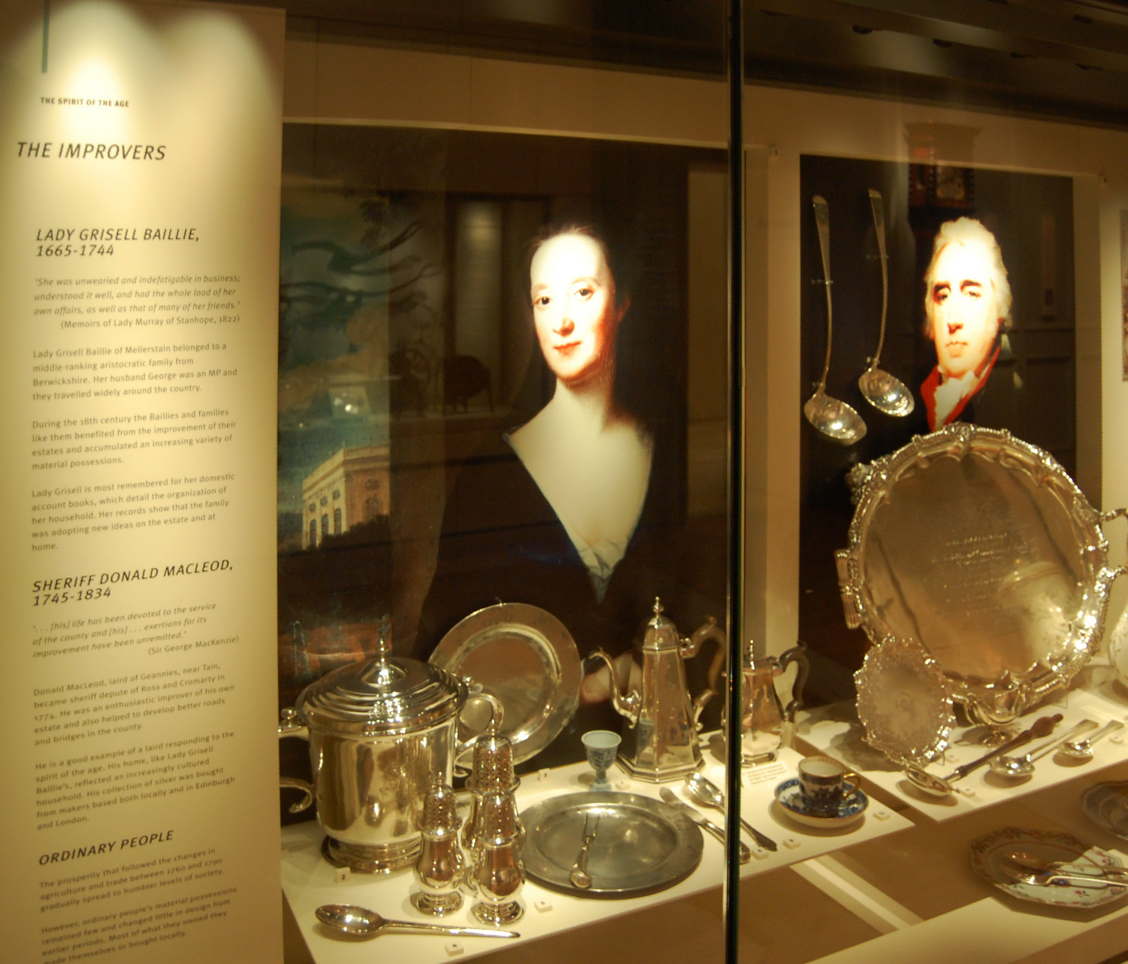 Two improvers and their possessions, Lady Grisell Baillie (1665-1744) and Sheriff Donald MacLeod (1745-1834).